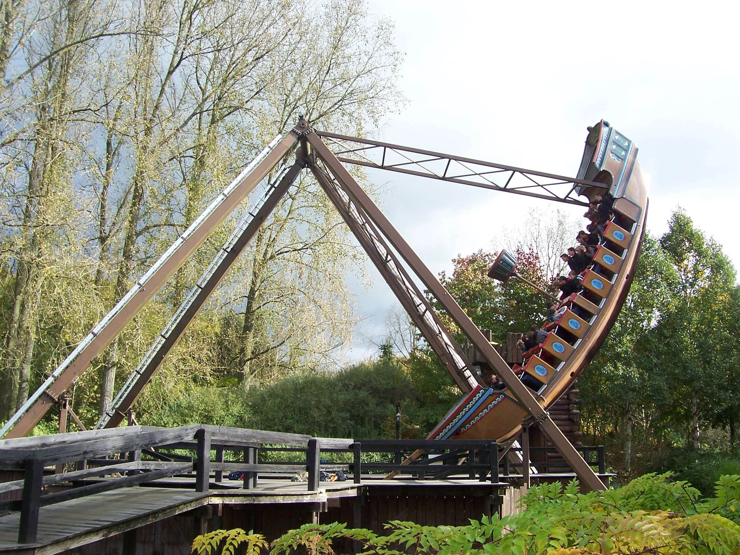 Pirate ship Hudson Bay, Walibi World (The Netherlands)